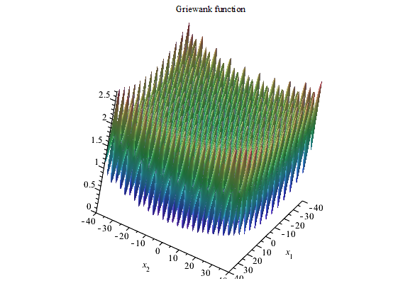 2nd order Griewank function 3D plot